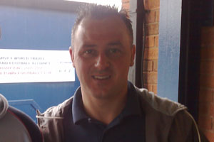 Photo taken by myself of Darren Roberts after the friendly game between Aston Villa Old Stars Vs. BDF Newlife Eleven on November 18, 2007.